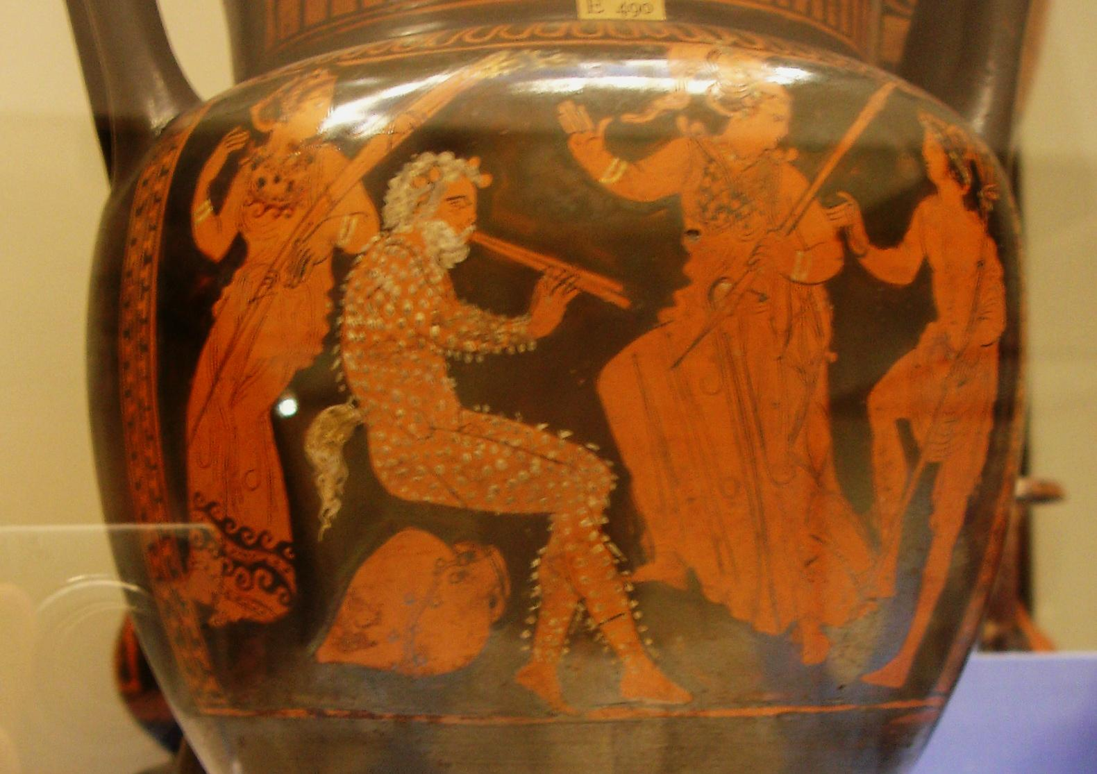 Marsyas playing a pair of pipes. Athena and Apollo stand to the right, reminding the legends of the invention of the pipe (Athena) and the musical contest lost by the satyr (Apollo). Athenian red-figured column-krater, ca. 410–400 BC.